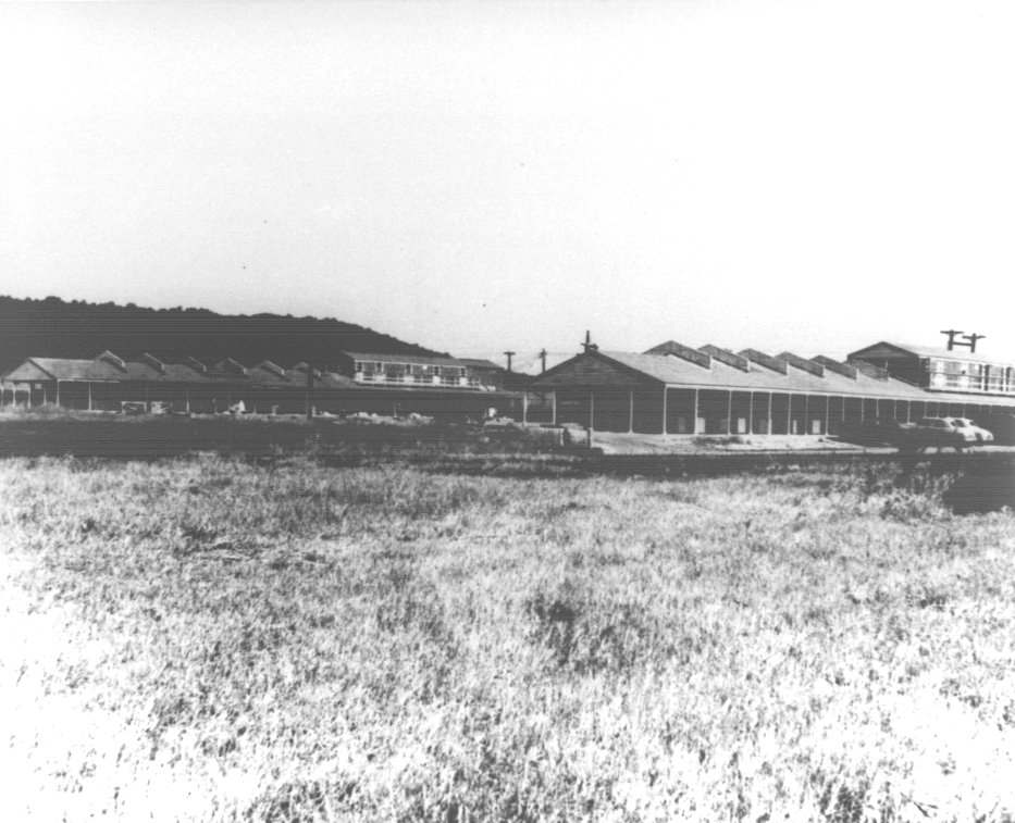 on 3 March 1952, the Commanding Officer at Redstone Arsenal officially established the Provisional Redstone Ordnance School (PROS). However, the arsenal lost jurisdiction over the school effective 1 December 1952, when the Ordnance Guided Missile School (now the Ordnance Missile and Munitions Center and School) was established.